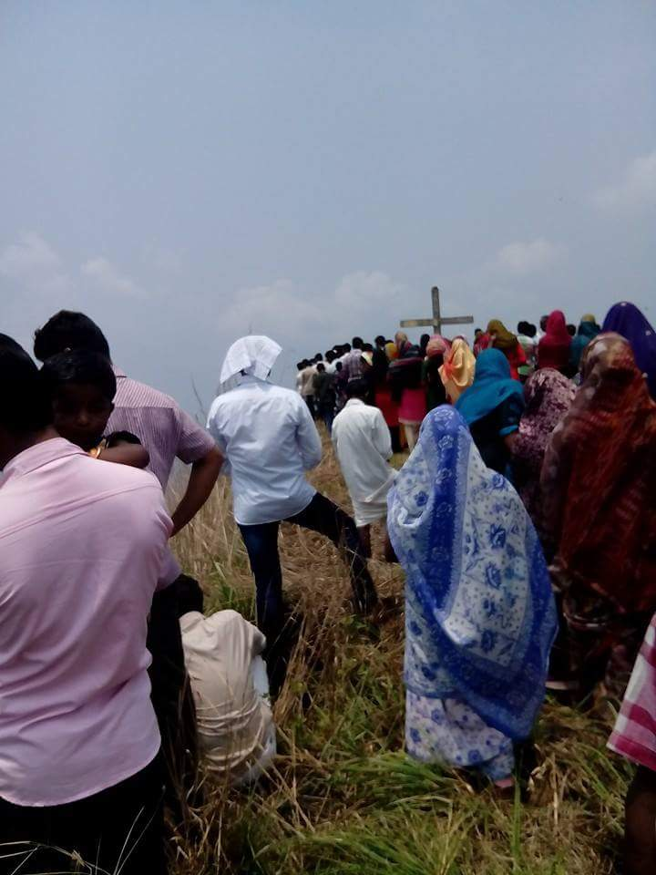 kurisumala kayattam